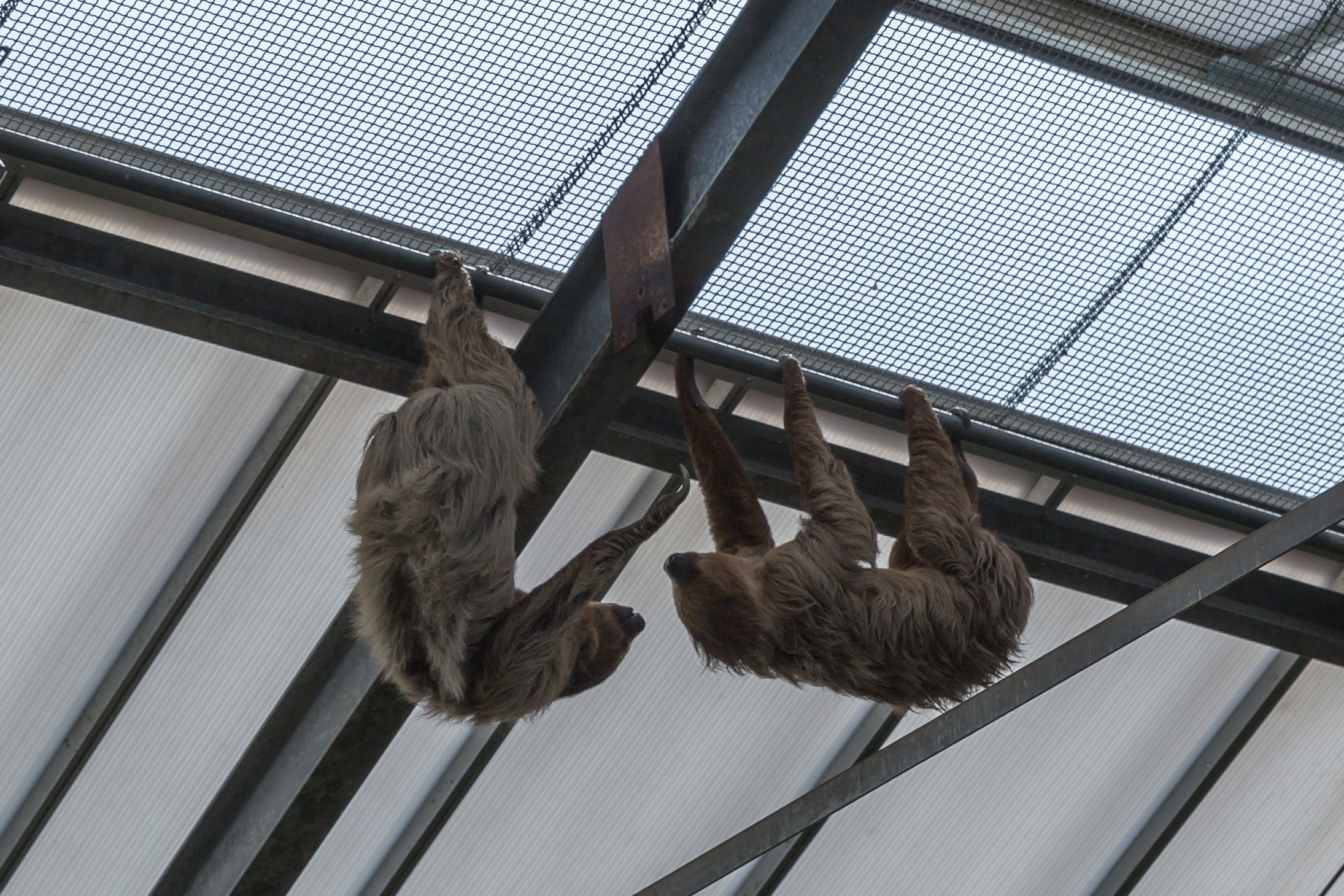 Choloepus didactylus (Linnaeus's two-toed sloth) in the ZooParc de Beauval in Saint-Aignan-sur-Cher, France.